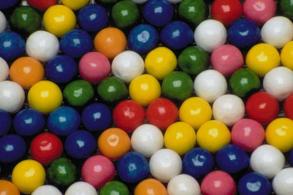 Chewing um, taken at the Haribo's factory in France